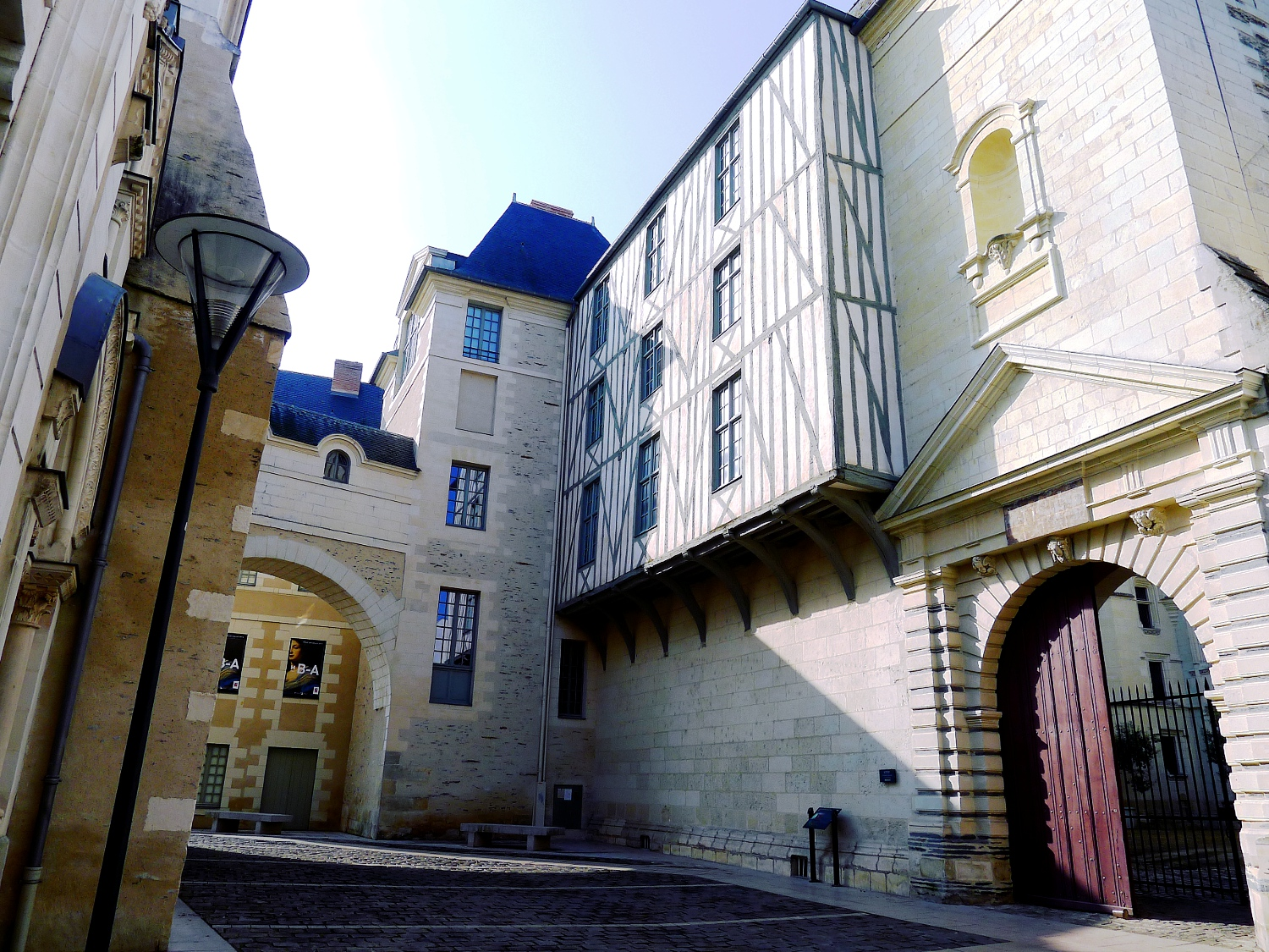 Logis Barrault (Angers, France)